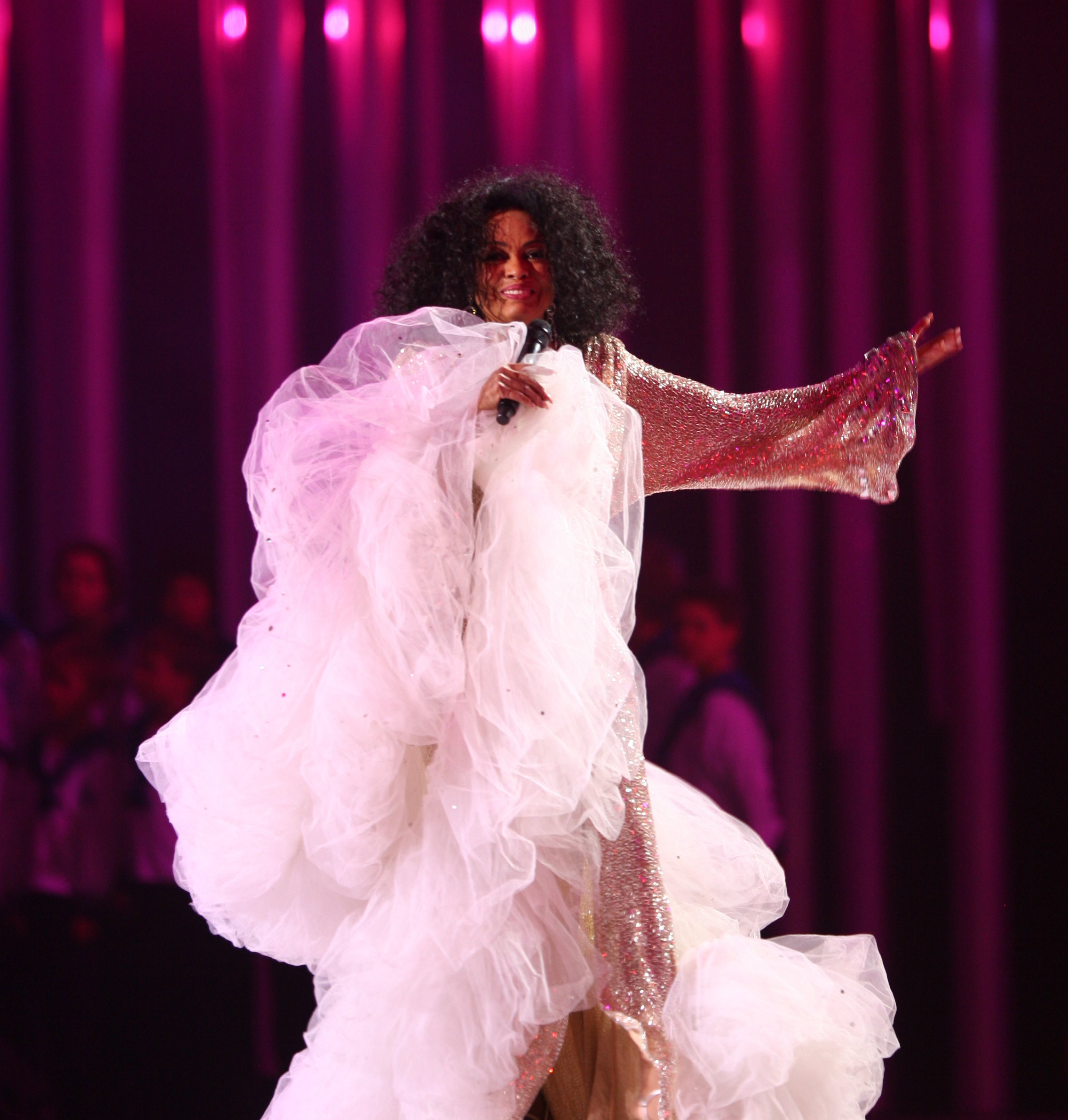 Nobel Peace prize Concert 2008, Oslo Spektrum, Diana Ross